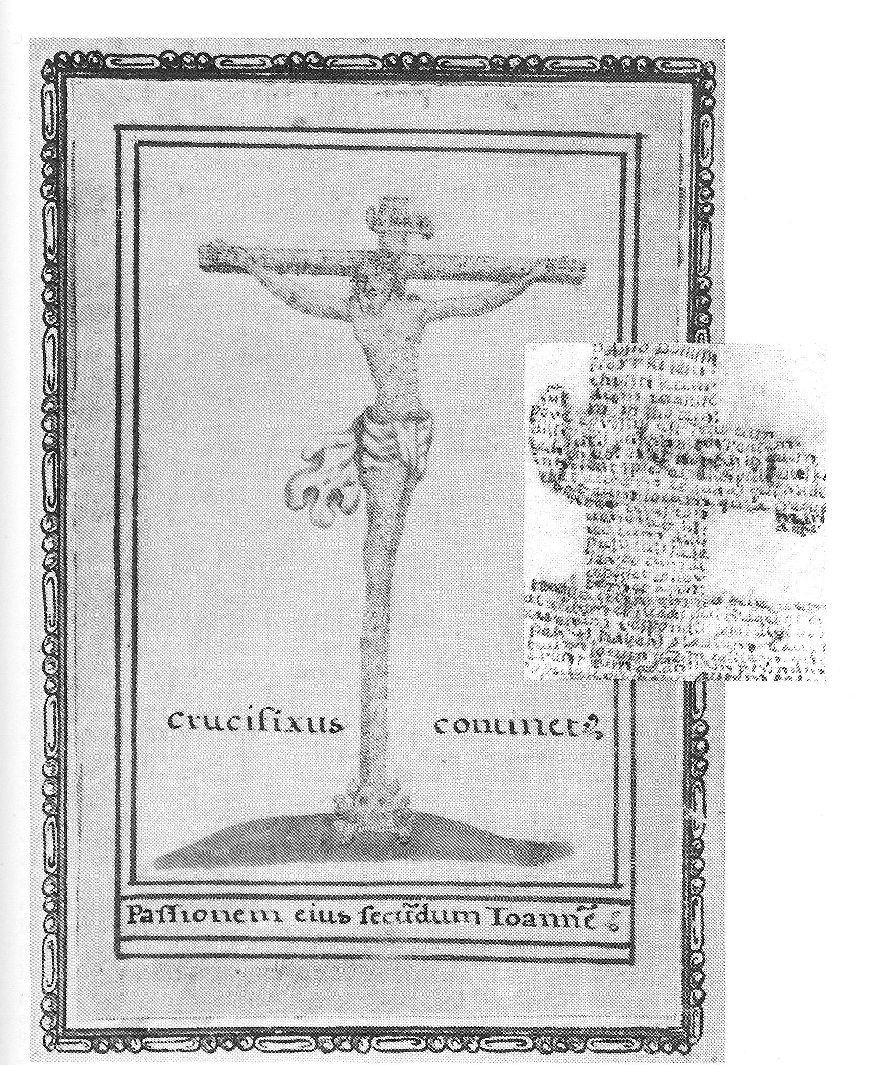 Johannes Kirchring der Ältere: Crucifixus continet Passionem eius secundum Ioannem. The Passion according to John written in the form of a Crucifix (micrograph), written 1605, f. 1r in the Album Amicorum of David von Mandelsloh, Stadtbibliothek Lübeck, Ms. hist. 8° 24